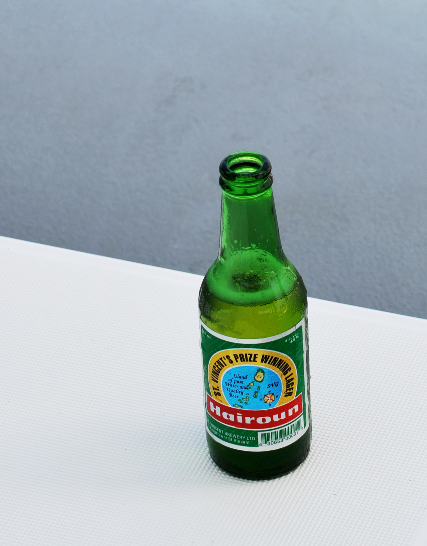 Hairoun beer of St. Vincent